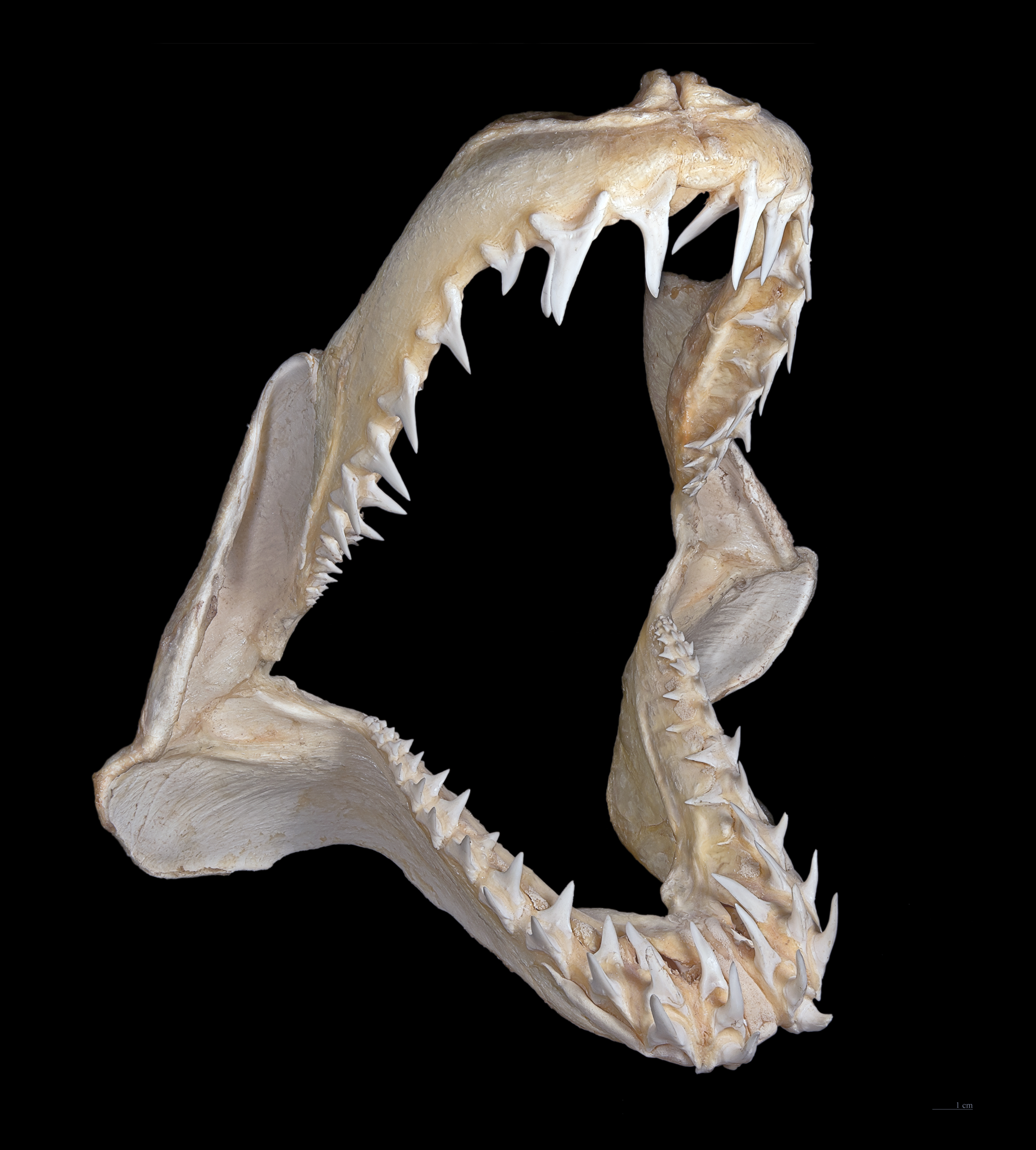 Shortfin mako shark, jaw. Locality :North Atlantic Ocean. Size: 25x24x24 cm